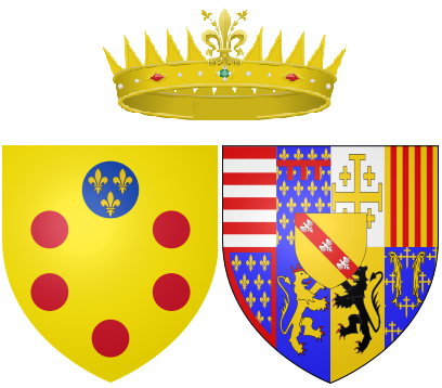 Arms of Christina of Lorraine as Grand Duchess of Tuscany